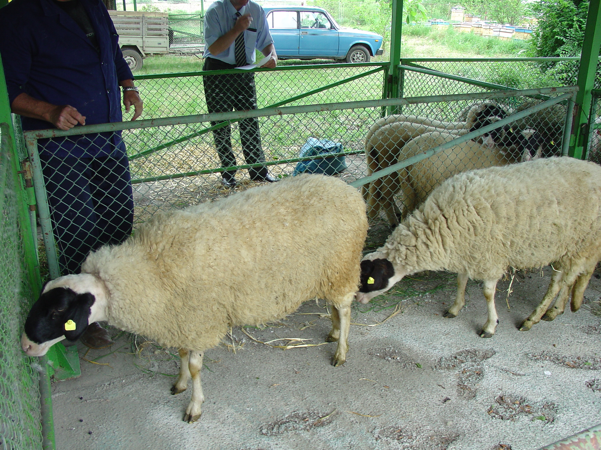 Local Stara Zagora Sheep